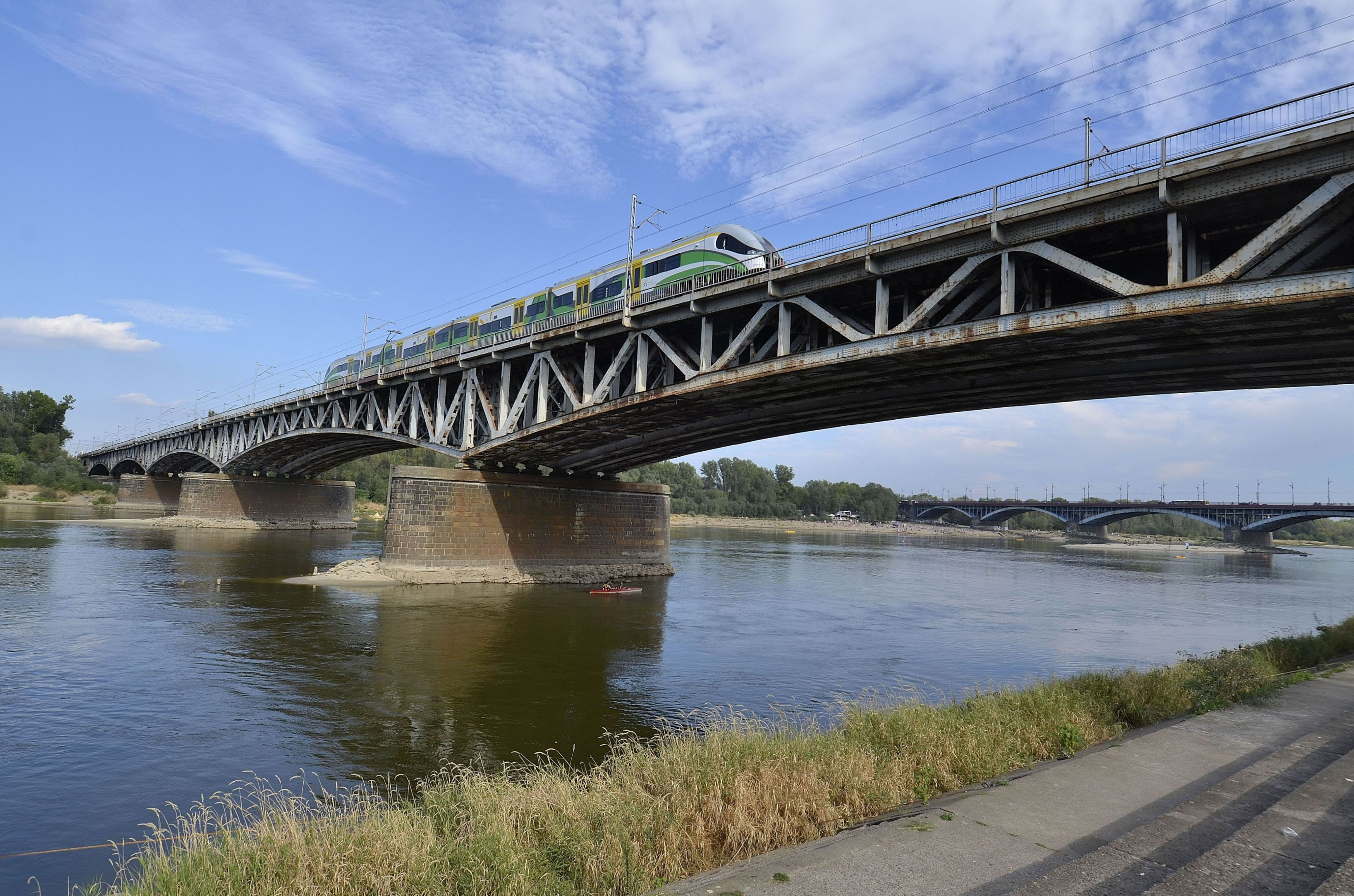 Średnicowy Bridge in Warsaw